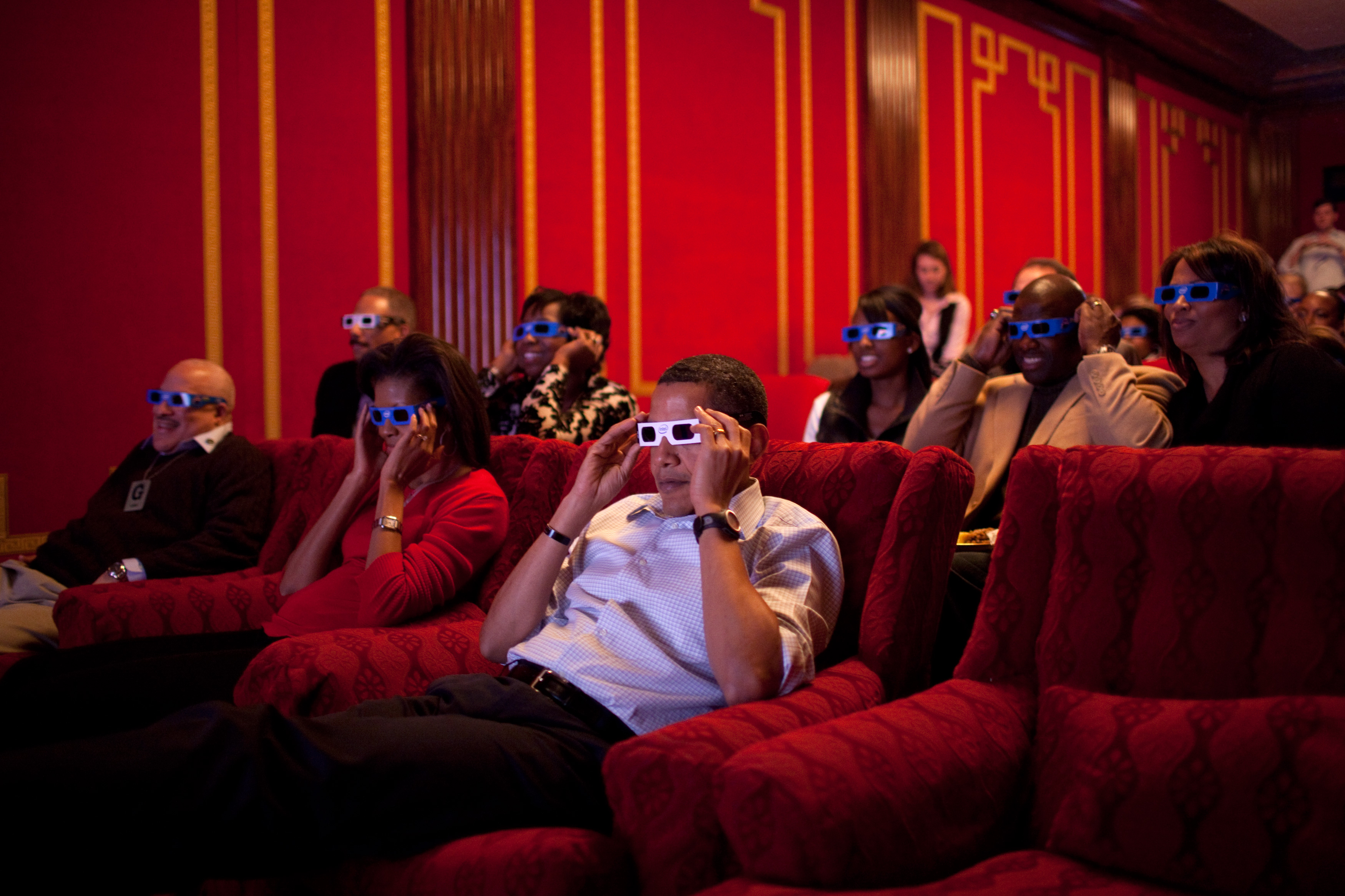 President Barack Obama and First Lady Michelle Obama wear 3-D glasses while watching Super Bowl 43, Arizona Cardinals vs. Pittsburgh Steelers, at a Super Bowl Party in the family theater of the White House. Guests included family, friends, staff members and bipartisan members of Congress, 2/1/09.